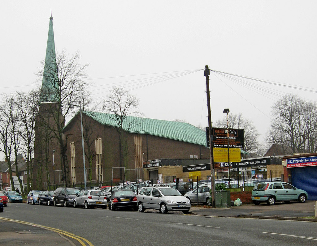 St Paul's Church, 405 Belchers Lane, Bordesley Green